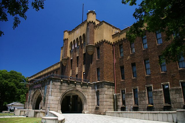 Former Head Quarter of 4th Division of Imperial Army Japan, Osaka Castle Park, Osaka City, Japan